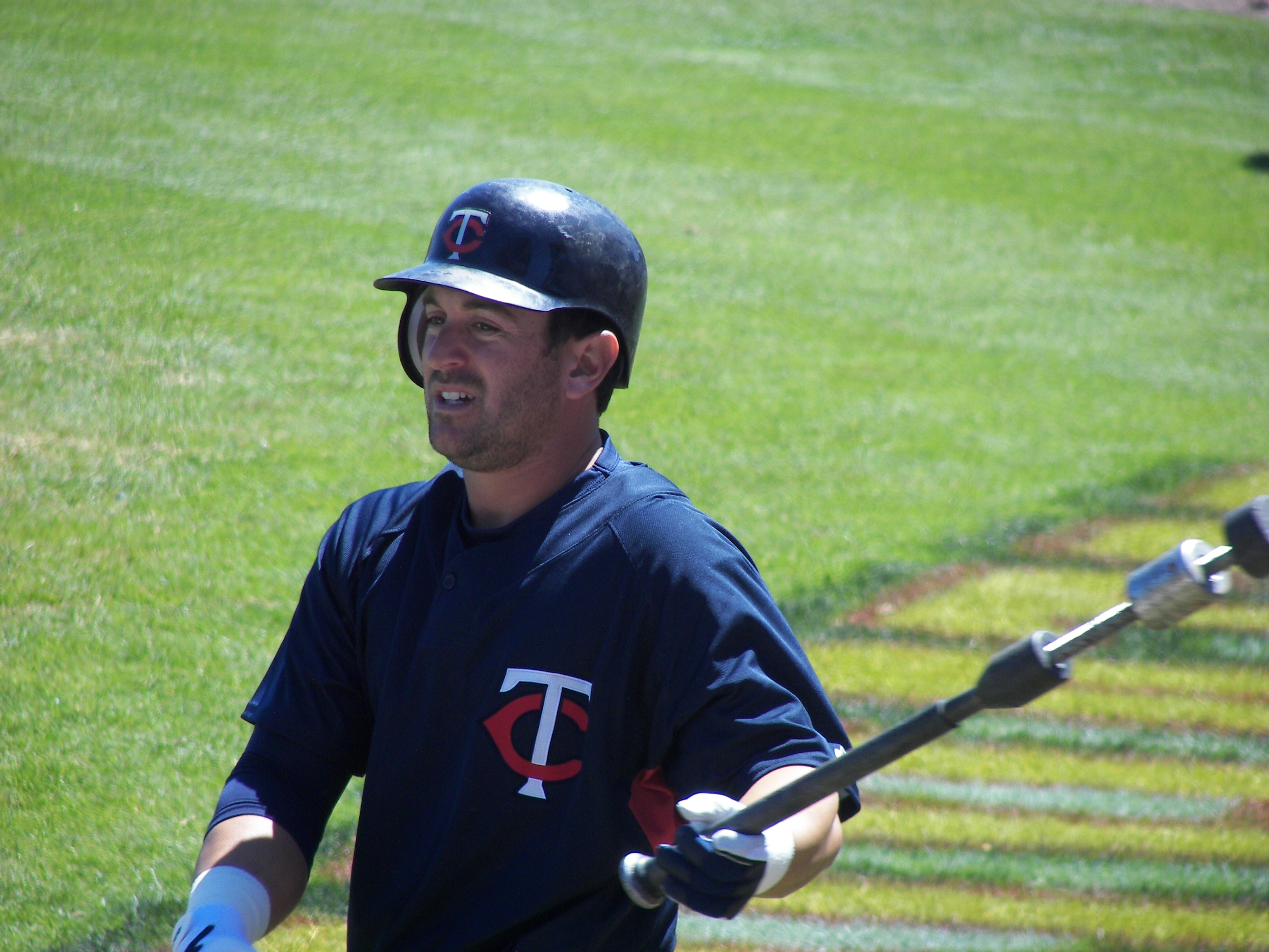 Minnesota Twins infielder Nick Punto during a Twins/Pittsburgh Pirates spring training game at McKechnie Field in Bradenton, Florida.